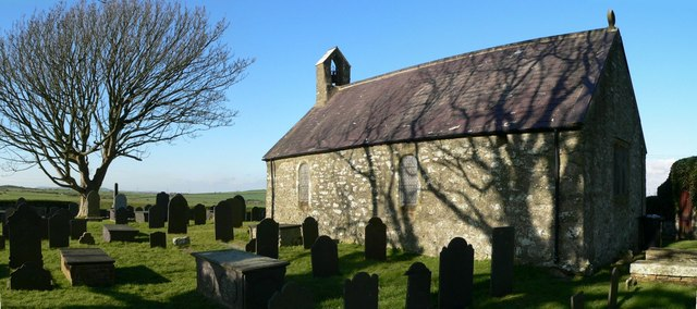 St. Mary's Church, Bodewryd. This Church replaced an earlier one that was struck by lightning, the building work was made possible with money donated by Henry Edward John Stanley, the third Baron Stanley of Alderley (1827-1903). He held the Muslim faith, and so unusually this Christian Church holds features of Islamic design. The stained glass windows being one of the prime examples of this style.